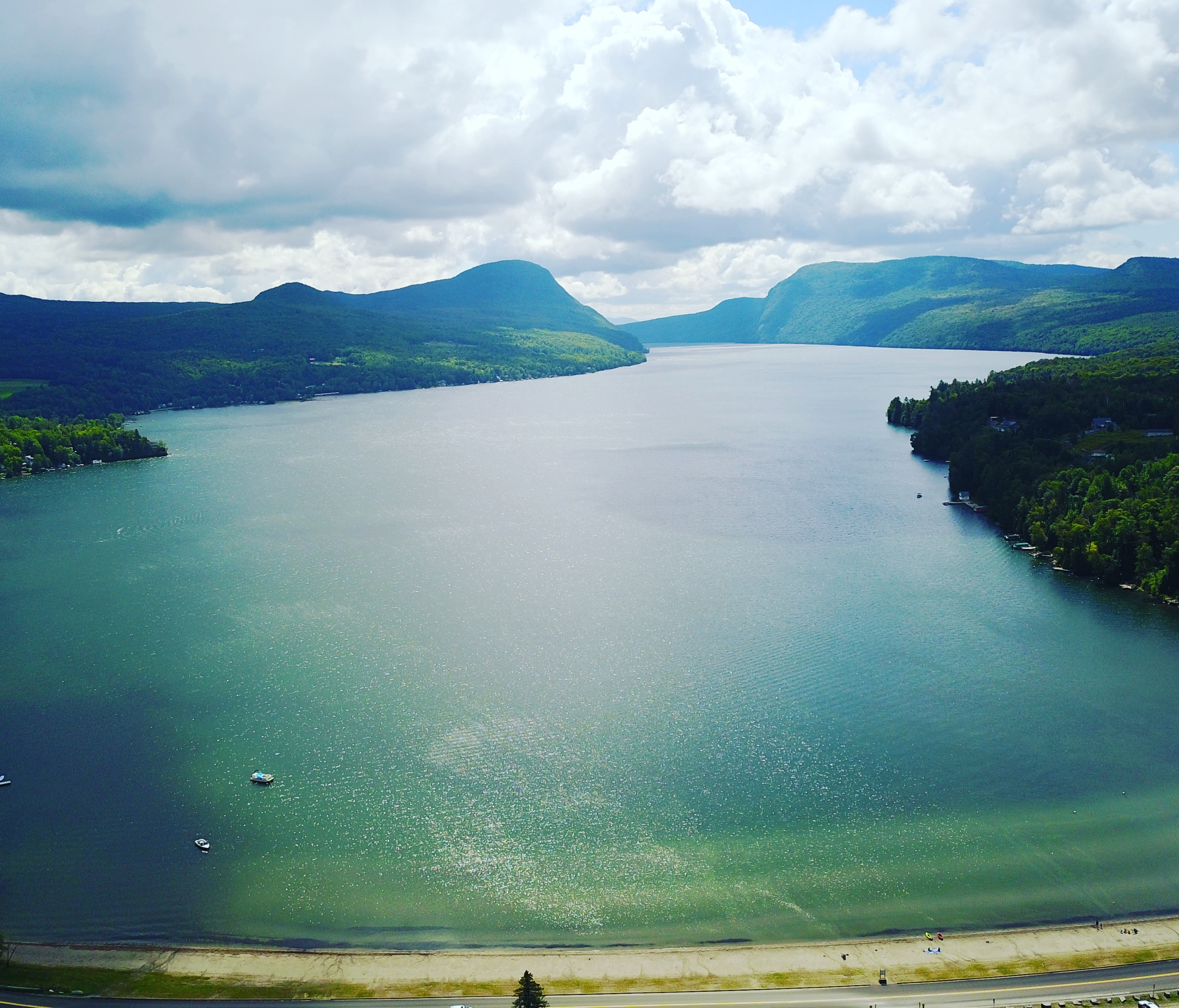 Drone shot above north shore of Lake Willoughby, Vermont, looking south.